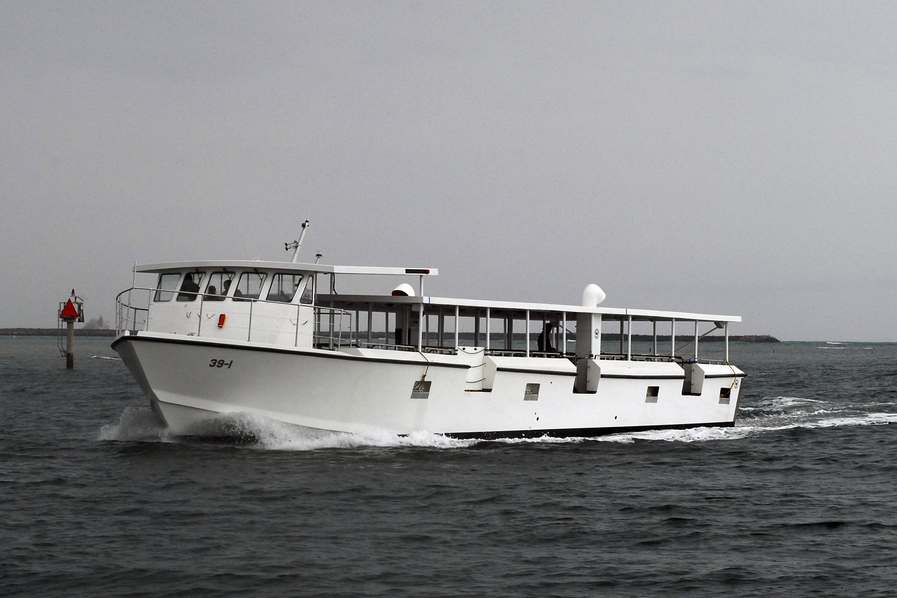 FORD ISLAND, Hawaii (March 7, 2009) Newly acquired ferry boat John W. Finn enters the channel to Naval Station Pearl Harbor. The boat is named after Medal of Honor recipient John W. Finn and is the first of five bio-diesel fueled boats that will be used to shuttle visitors to the Arizona Memorial. (U.S. Navy photo by Mass Communication Specialist 3rd Class Eric J. Cutright/Released)